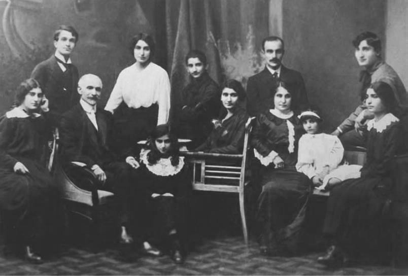 Hovhannes Tumanyan's family